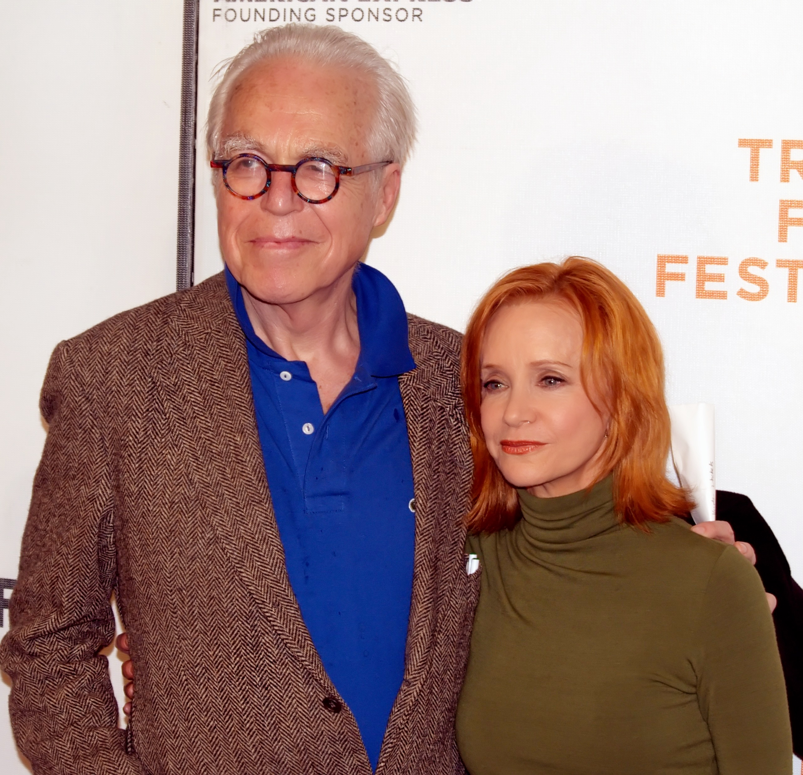 John Guare and Swoosie Kurtz at the 2009 Tribeca Film Festival premiere of Poliwood. Photographer's blog post about the event at which this portrait was taken.